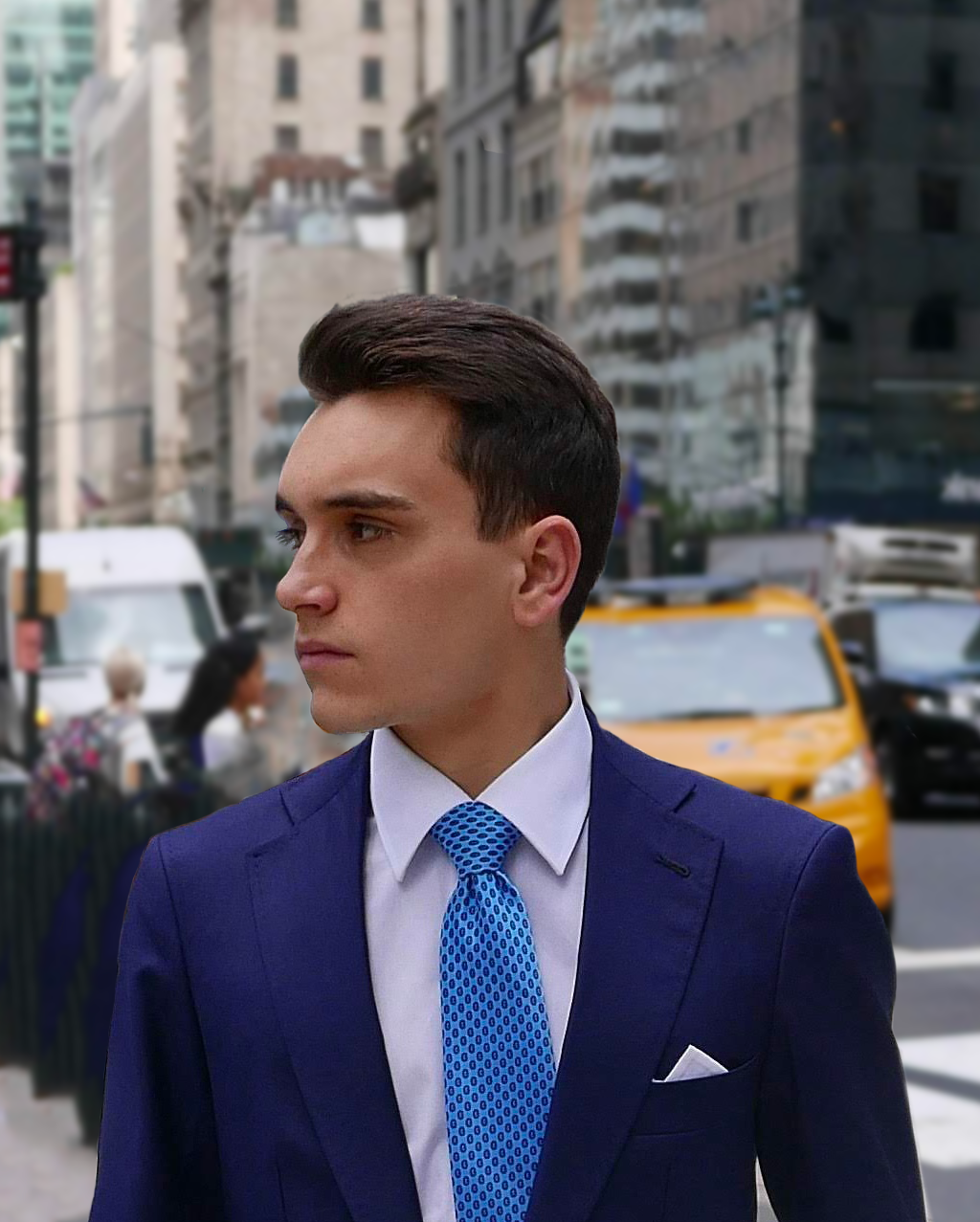 Aristide Tofani in New York